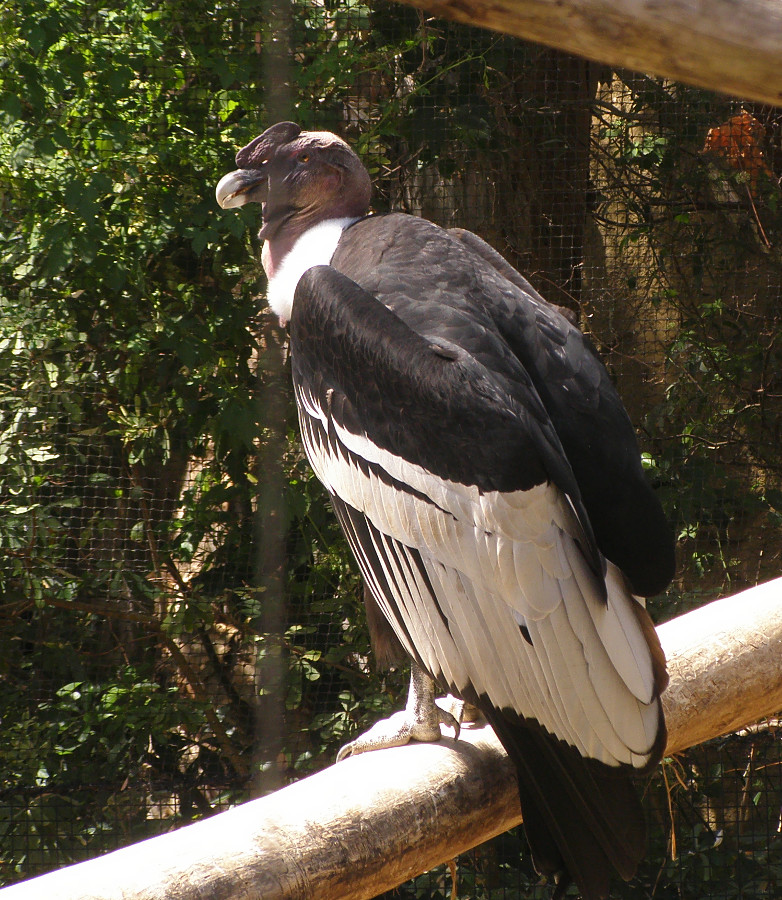 An Andean Condor at Taronga Zoo, Australia.